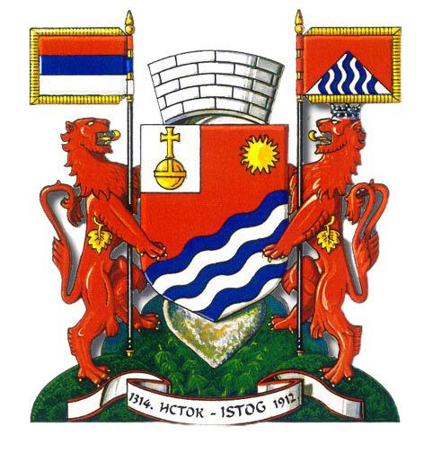 Flag of Istok